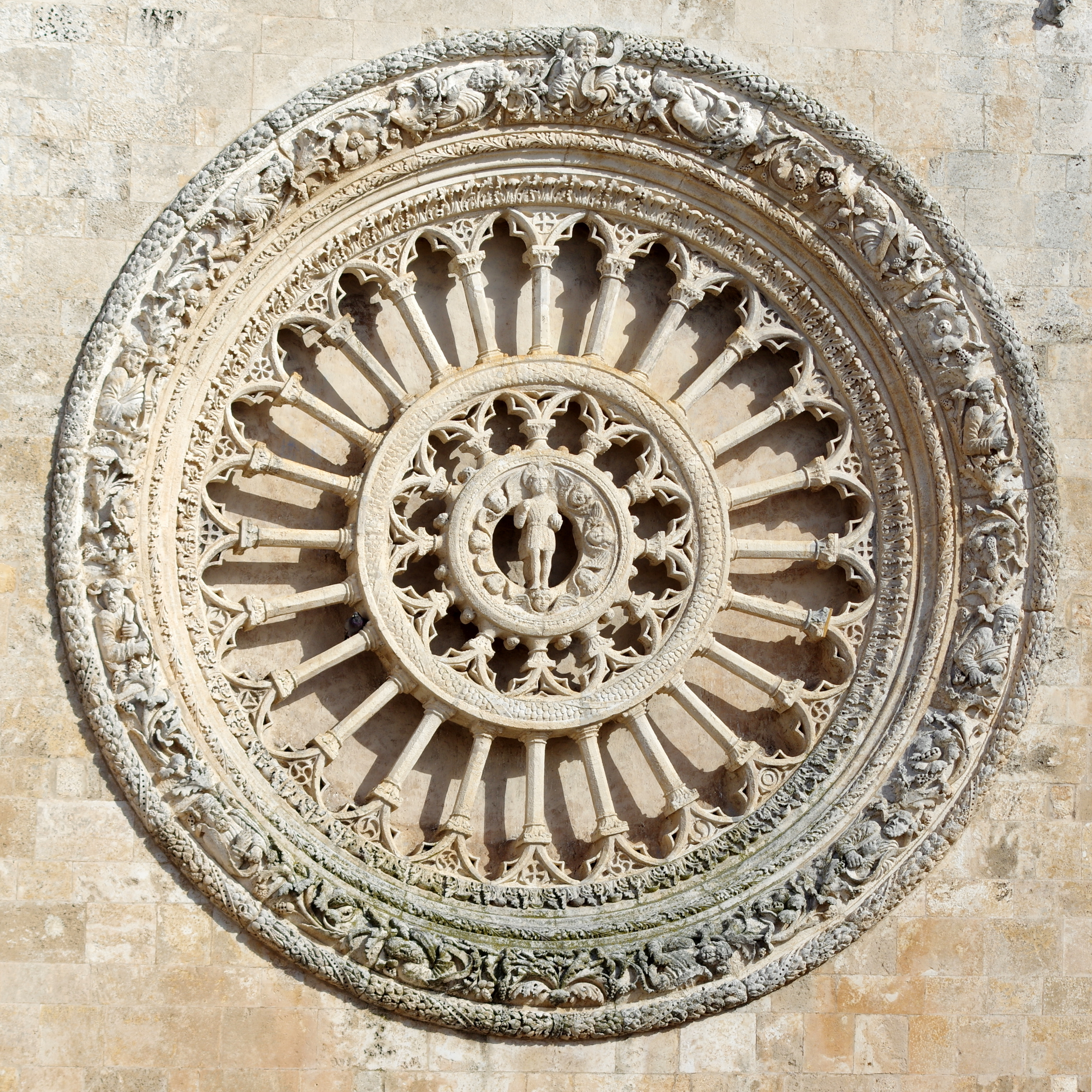 Italy, Ostuni, cathedral